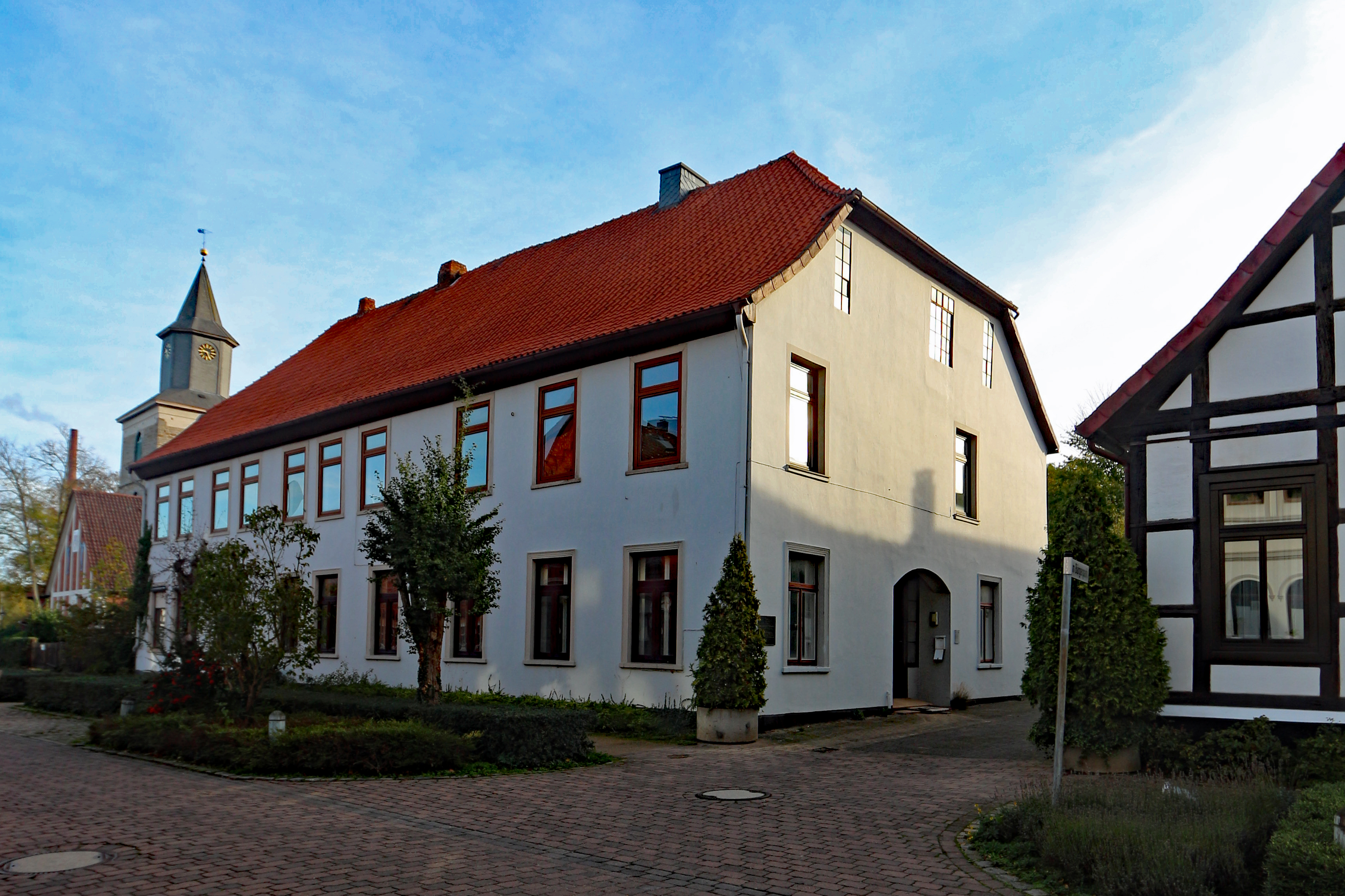 Mohrhoff-Haus in Hoya (Lower Saxony, Germany)